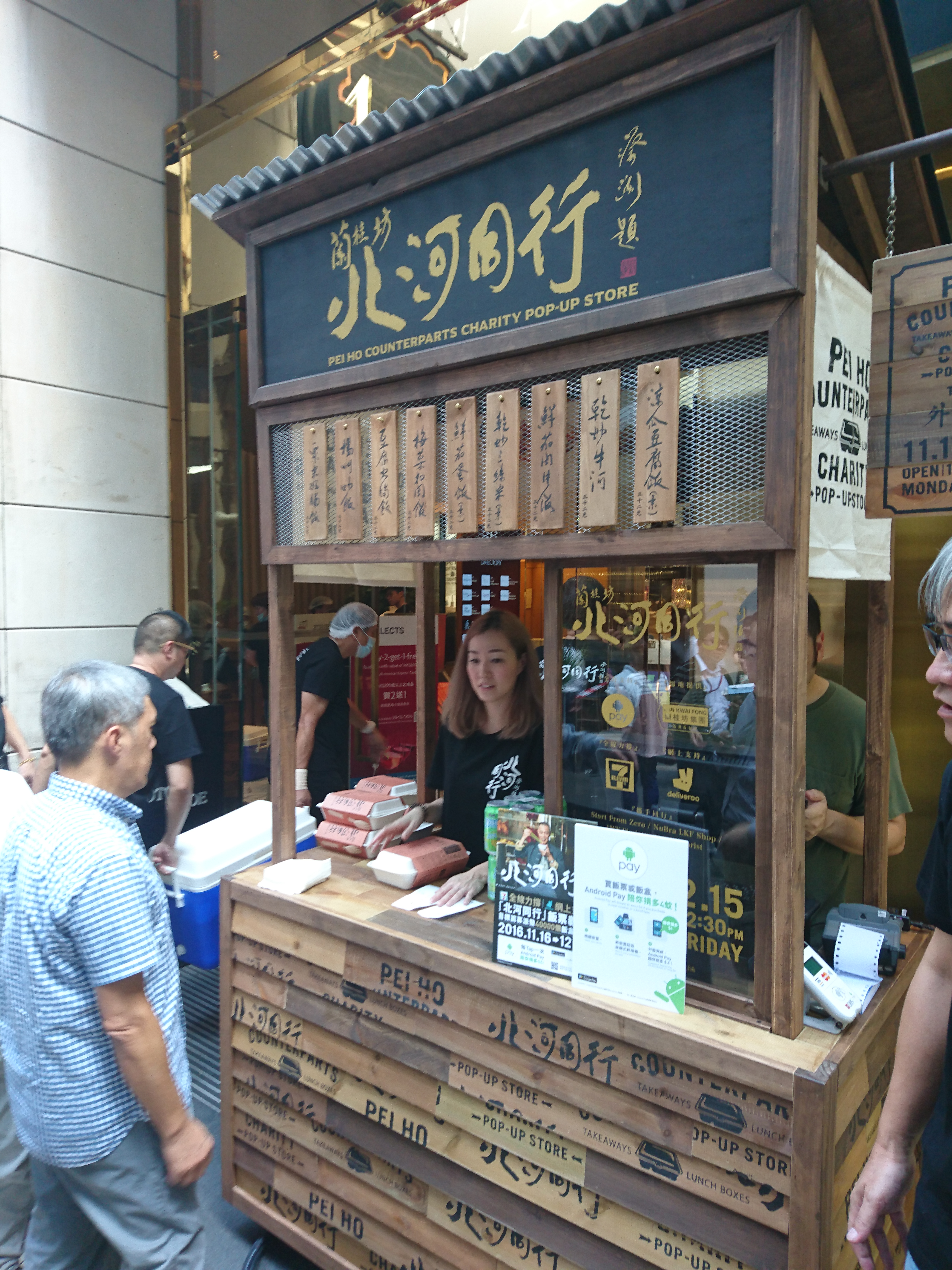 Pei Ho Counterparts Pop-Up Store on Lan Kwai Fong